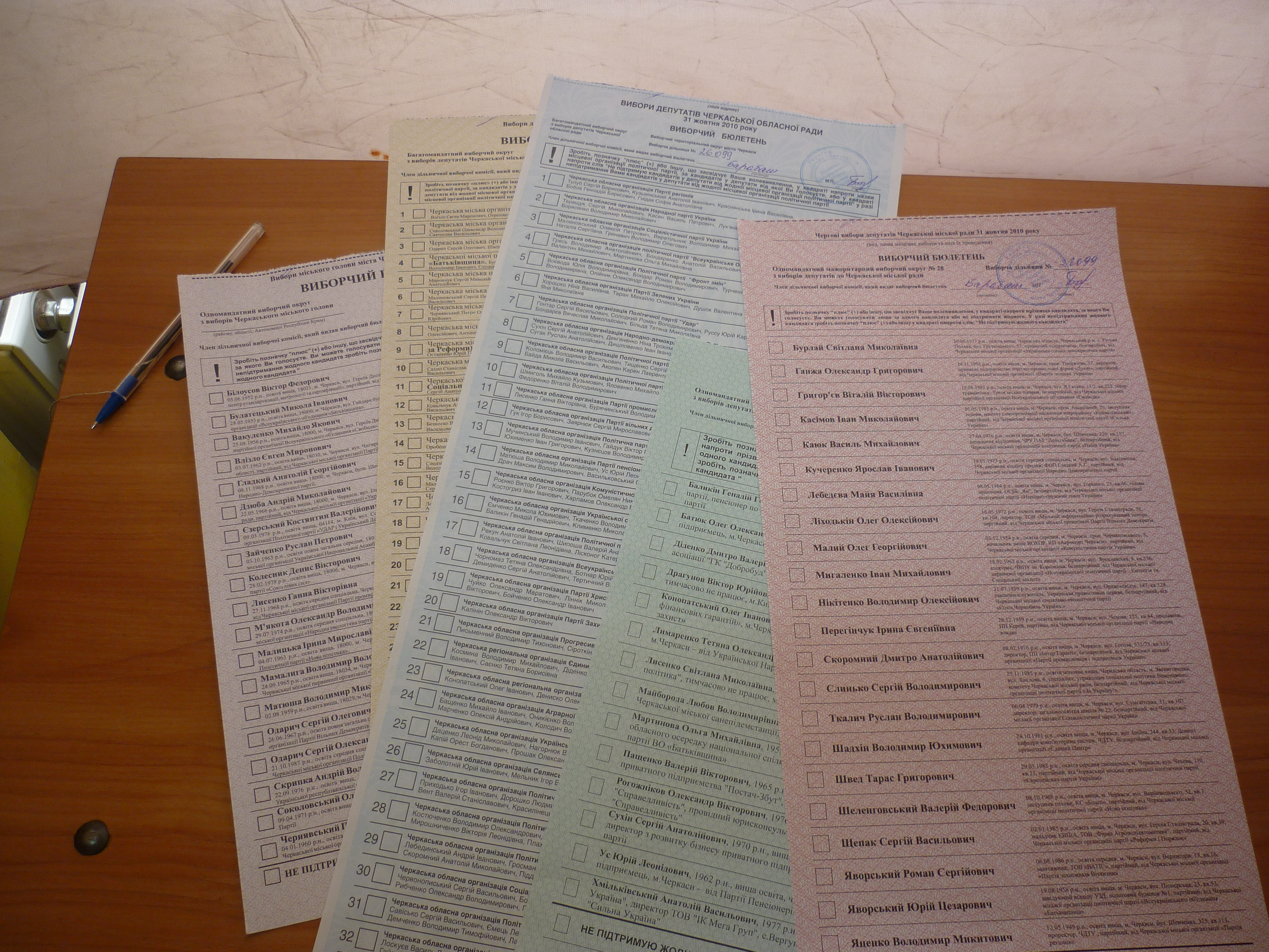 Election in Cherkasy 2010/ Bulletins